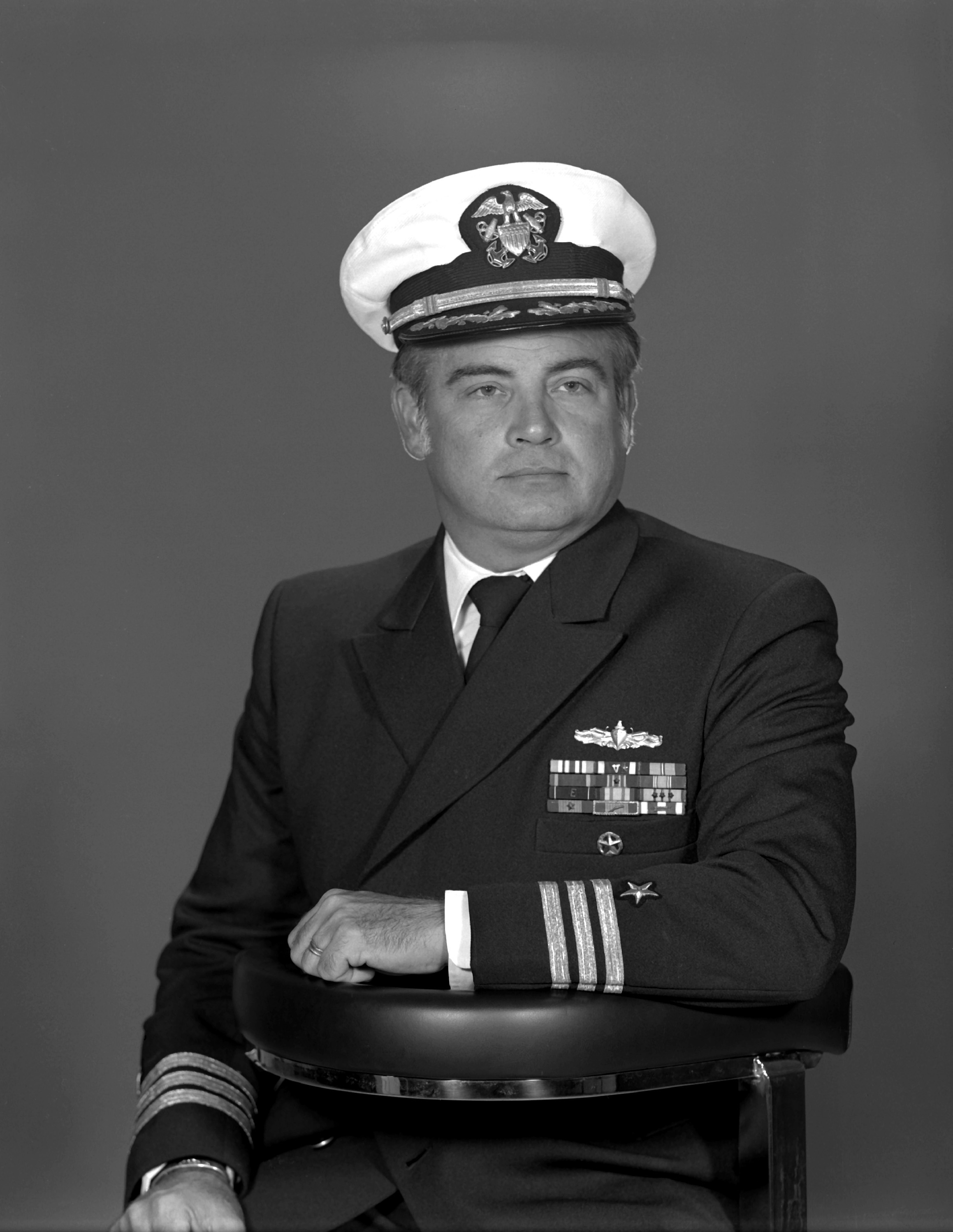 CDR Will C. Rogers III, USN (covered)